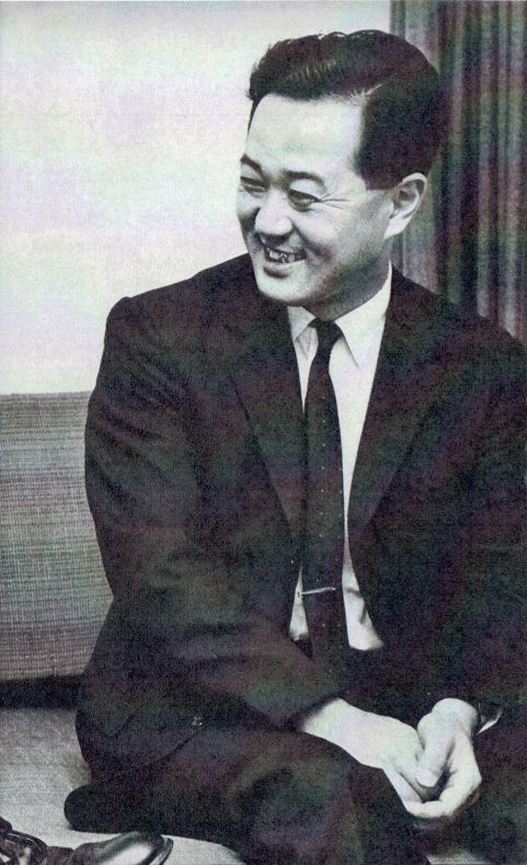 Kazuhiko Nishijima 1965